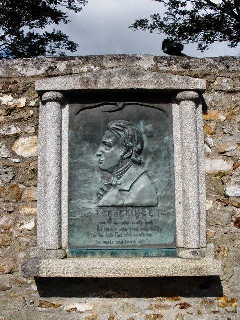 Plaque on the wall outside St Mary's parish church, Ottery St Mary, Devon, commemorating Samuel Taylor Coleridge, who was born in the town in 1772.